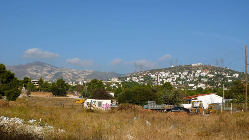 The picture depicts the land of Patima elevating through the Penteli Mountain.